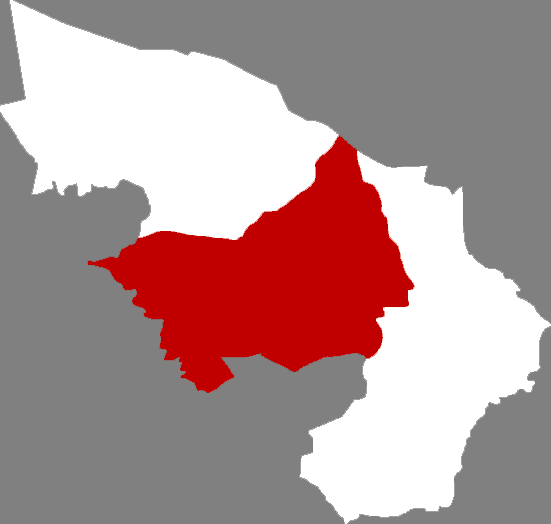 Locator map of Right Banner in Alxa League, Inner Mongolia, China